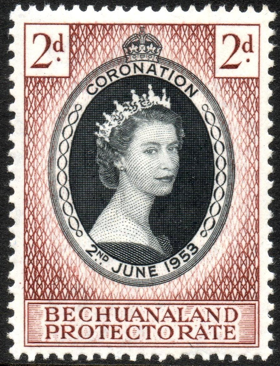 1953 coronation stamp.